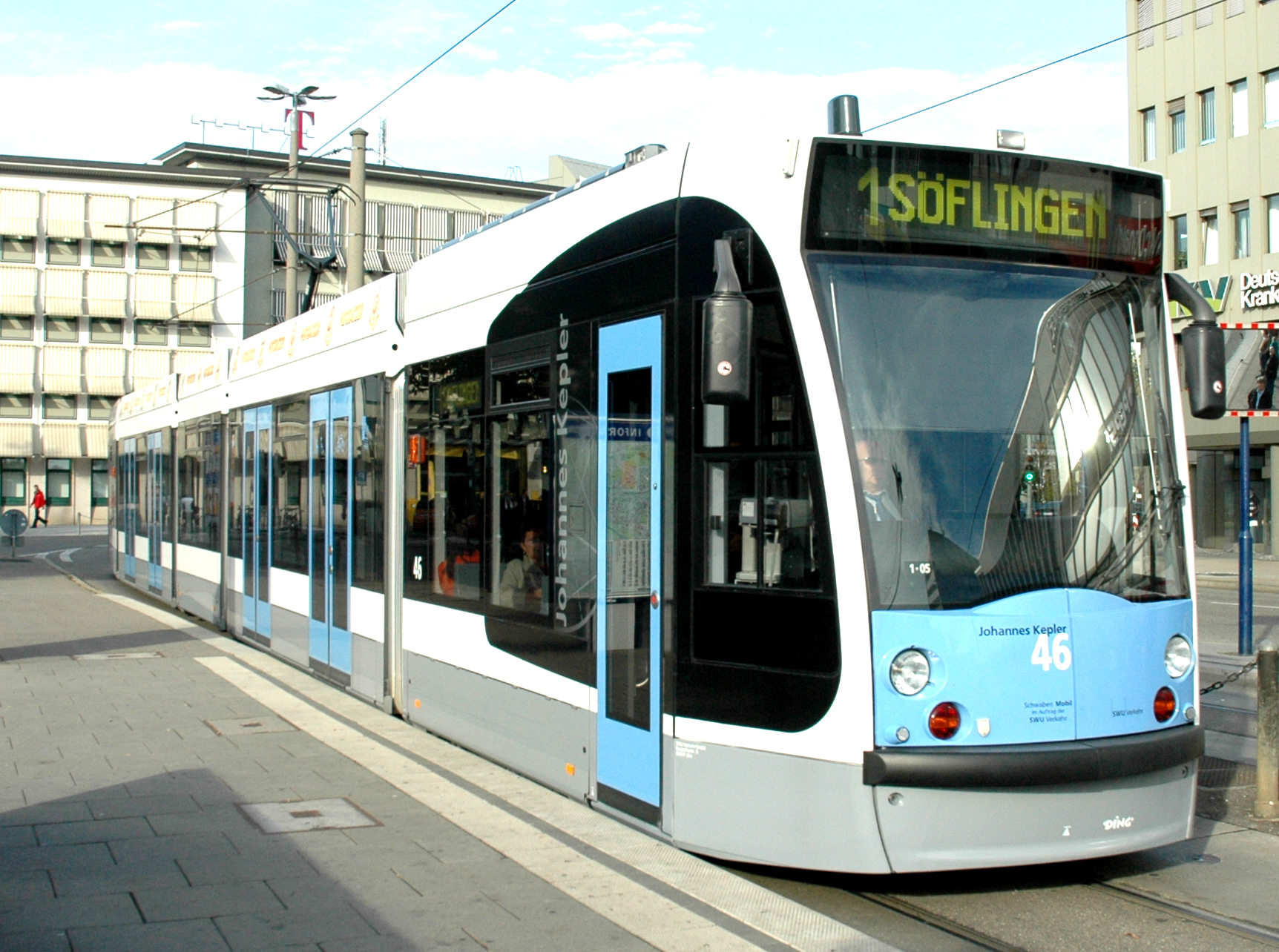 Siemens Combino tram (#46) in Ulm, Germany. Stadtwerke Ulm (SWU) operator.